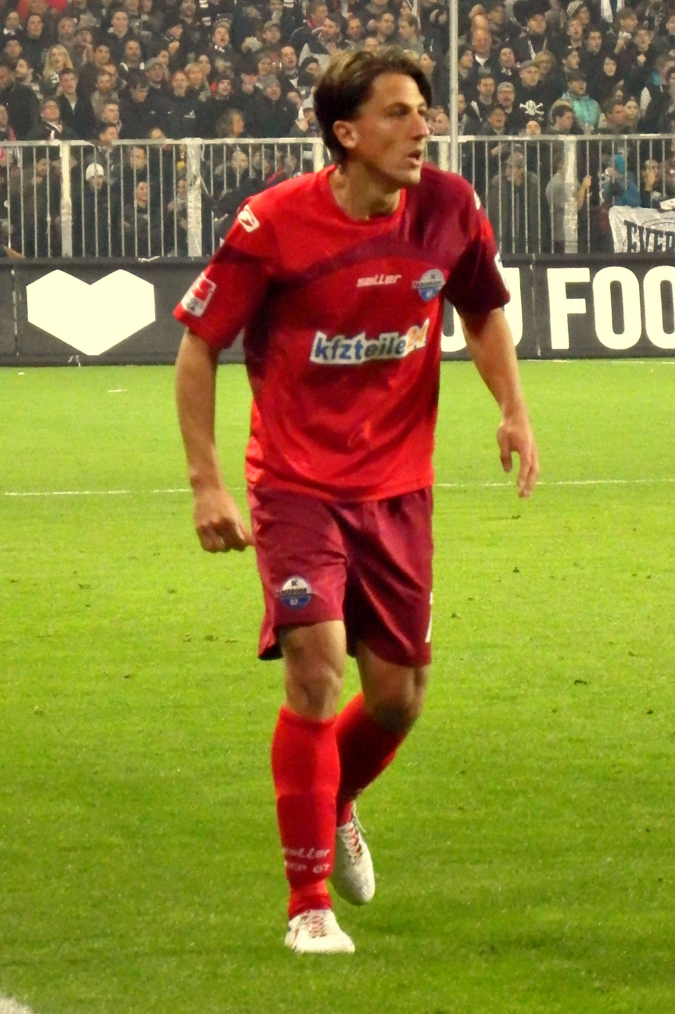 Jens Wemmer as Player of SC Paderborn